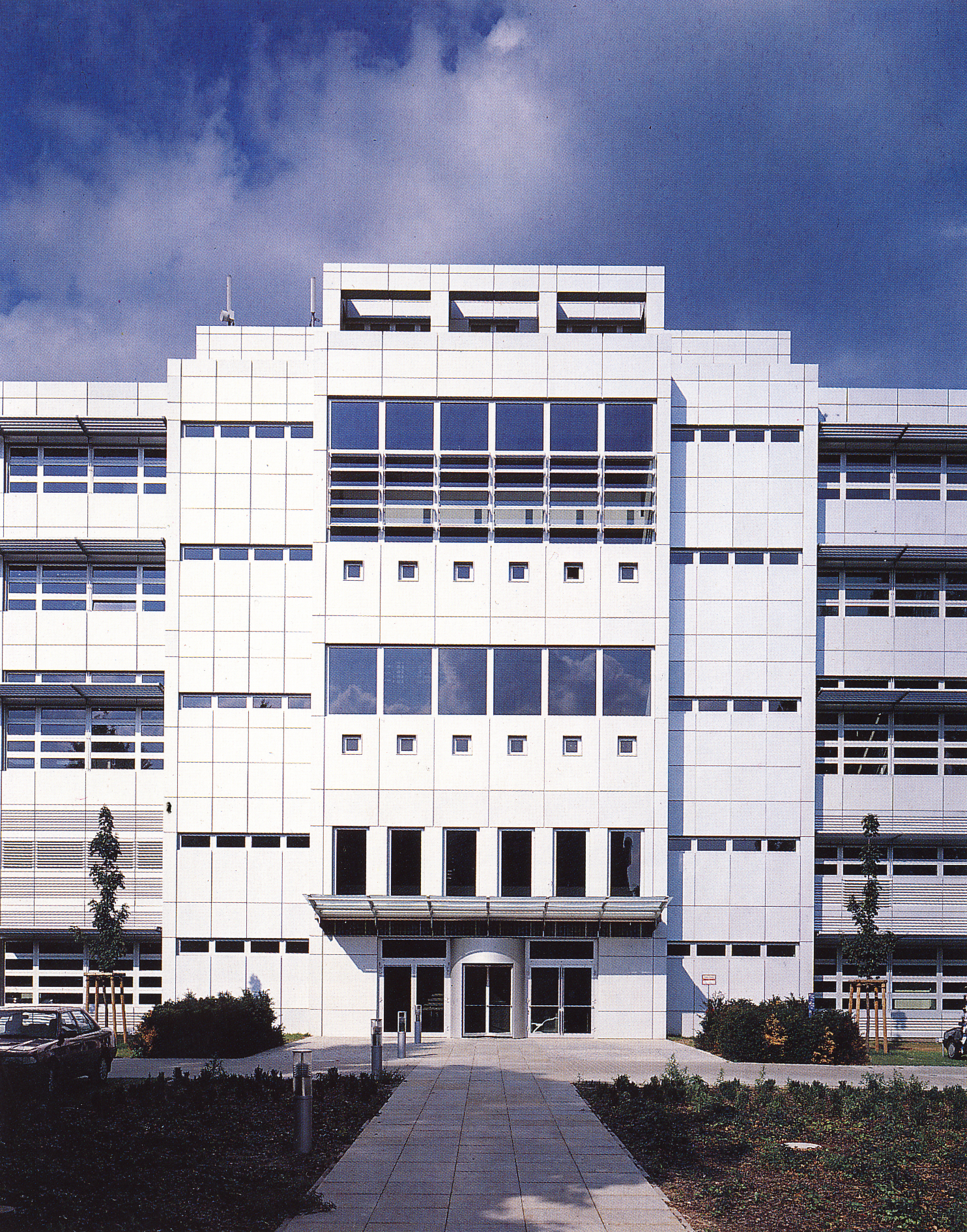 Featured images for Douglas Jarvie Clelland Wikipedia article